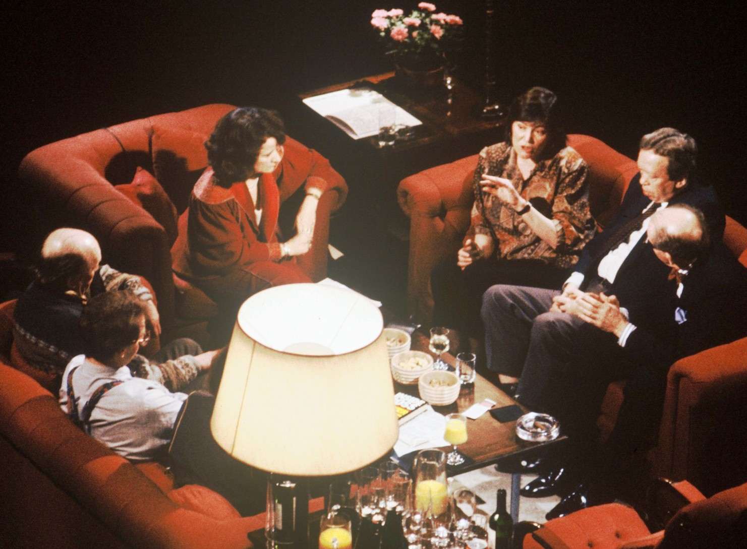 After Dark on 2 February 1991 - "Counting the Cost of a Free Press". Appearing with that week's host Helena Kennedy (centre) were Duncan Campbell, Lord Lambton, Gordon Winter, Jane Moore, Clare Short and Anthony Howard. More here.